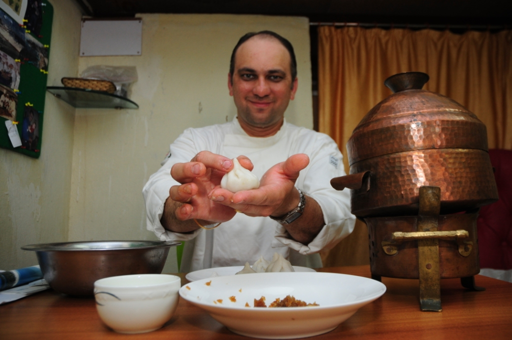 Cookery show